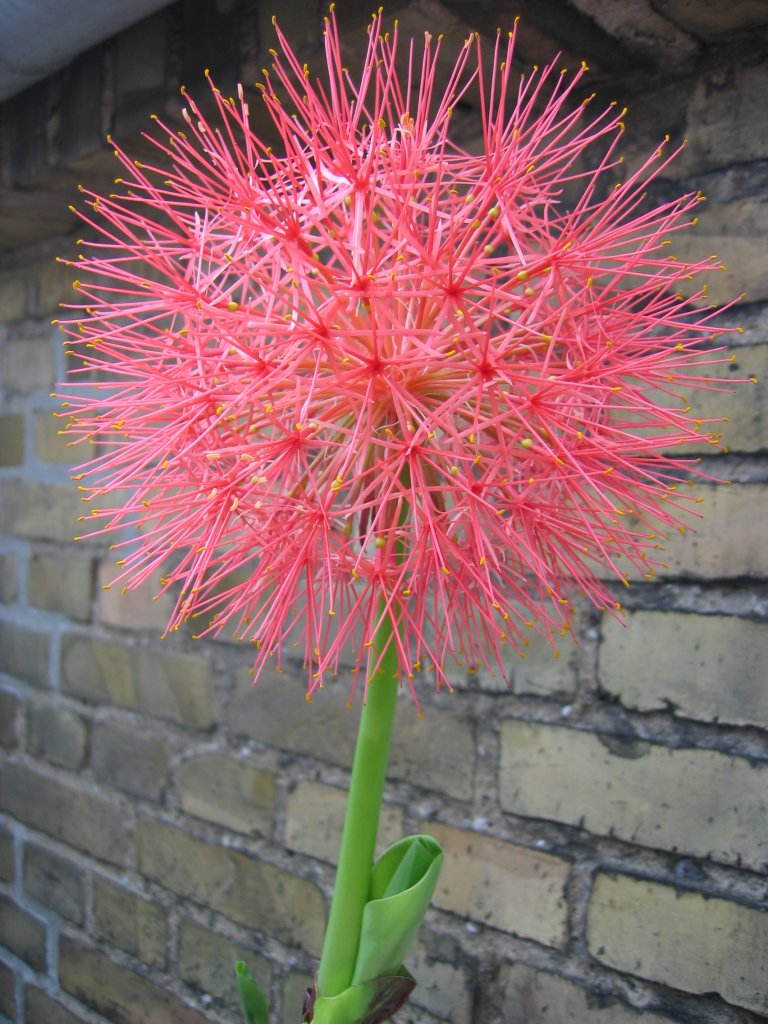 Scadoxus multiflorus ssp. katharinæ